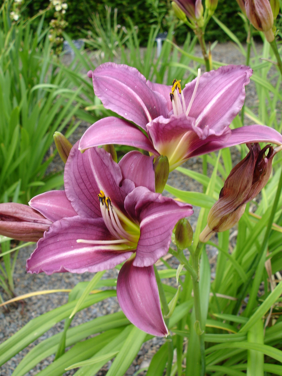 Hemerocallis 'Little Wart'